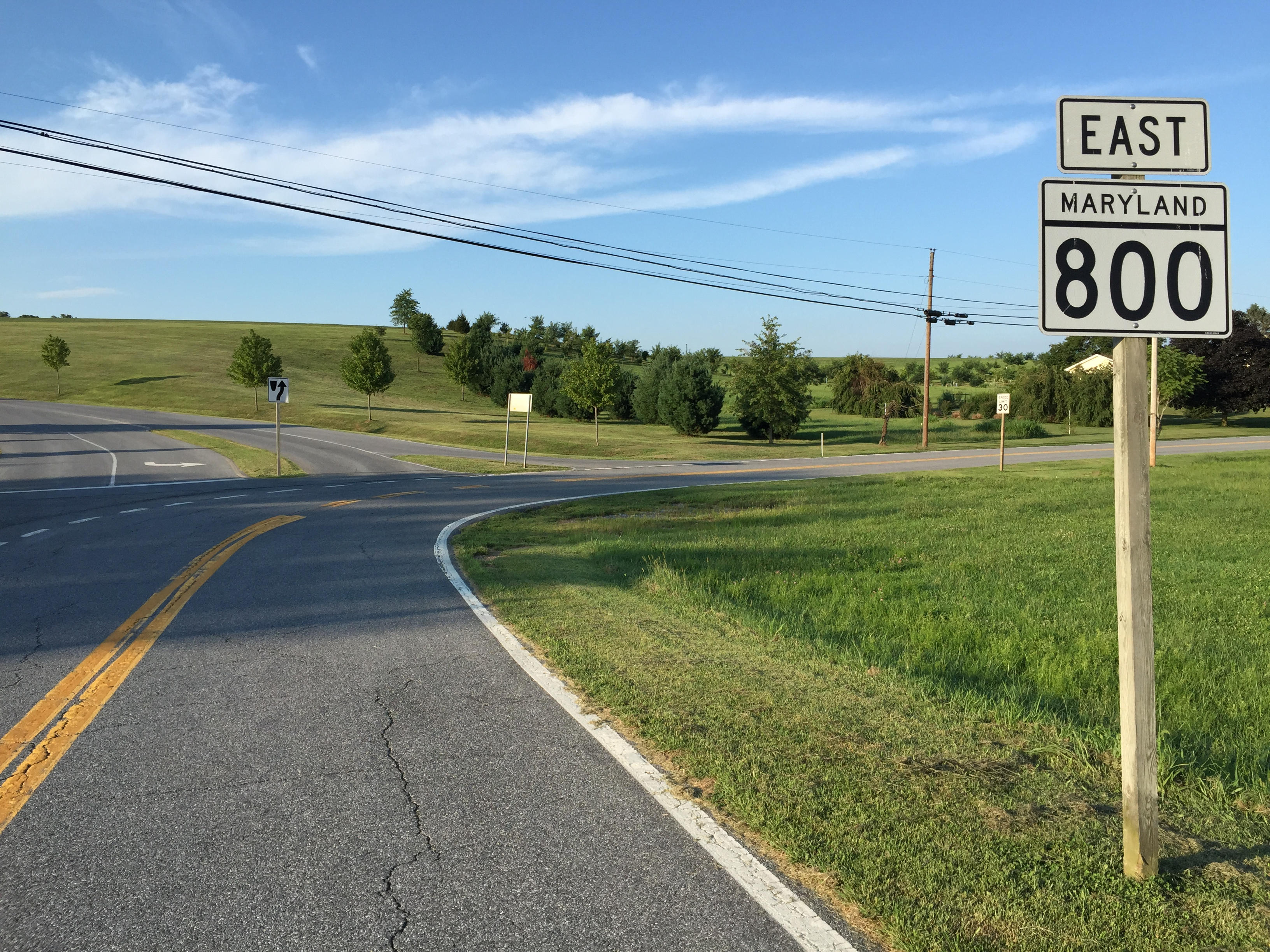 View east along Maryland State Route 800 (Watson Lane) at Maryland State Route 75 (Green Valley Road) near the Wolf Pit Branch of Little Pipe Creek in Linwood, Carroll County, Maryland